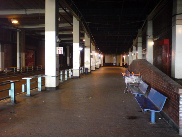 Chatham Bus Station This must be the most unpleasant bus station I've ever come across. It goes all around the first floor of the Pentagon Shopping Centre and is under cover as seen, with very little natural light on 3 of the 4 sides. It will be closed down in the next few years and relocated nearer to the railway station and at street level.